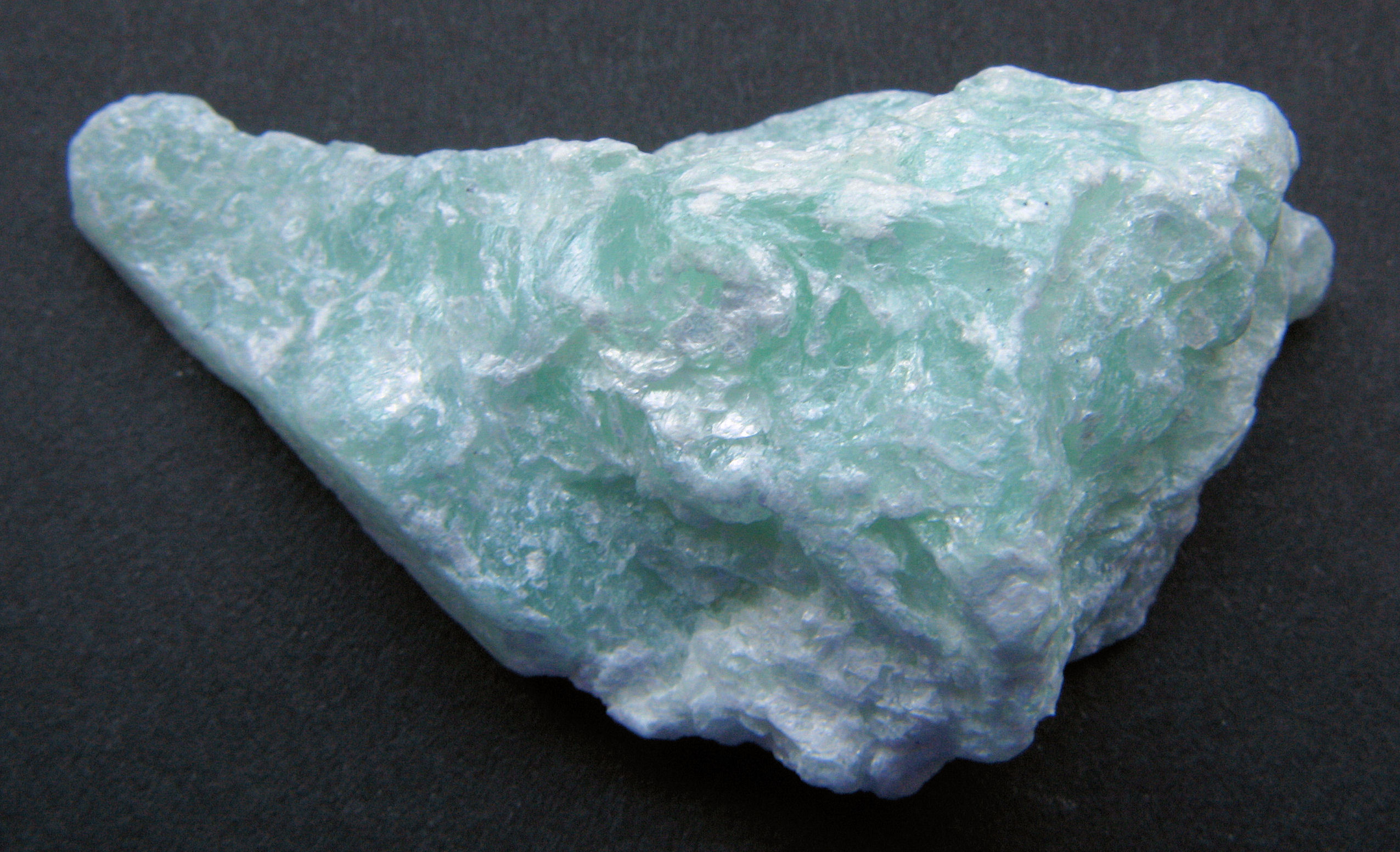 Talc (Soapstone, steatite)